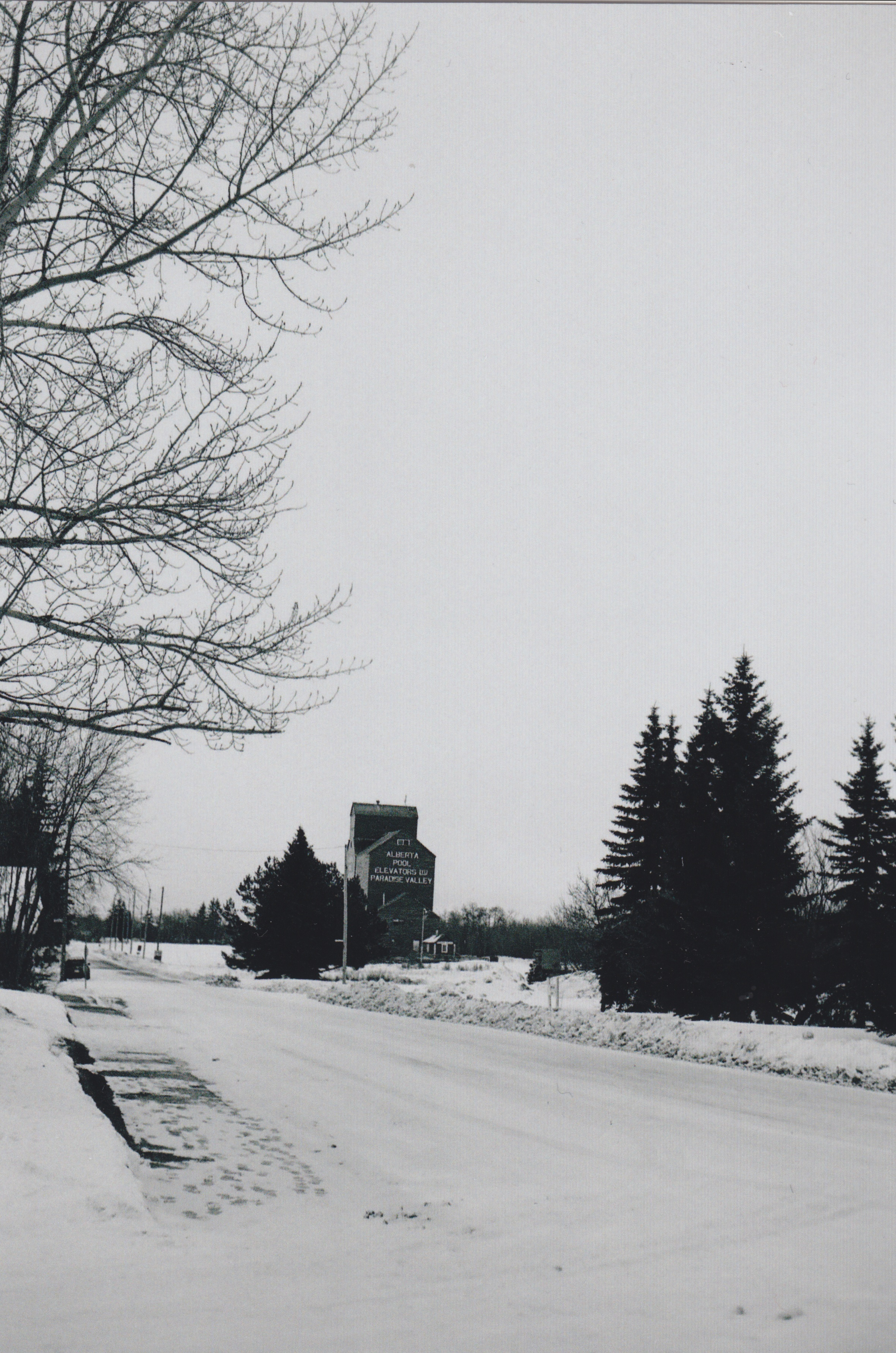 Alberta Wheat Pool Grain Elevator at Paradise Valley